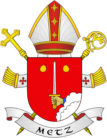 Coat of Arms of diocese of Metz in France.